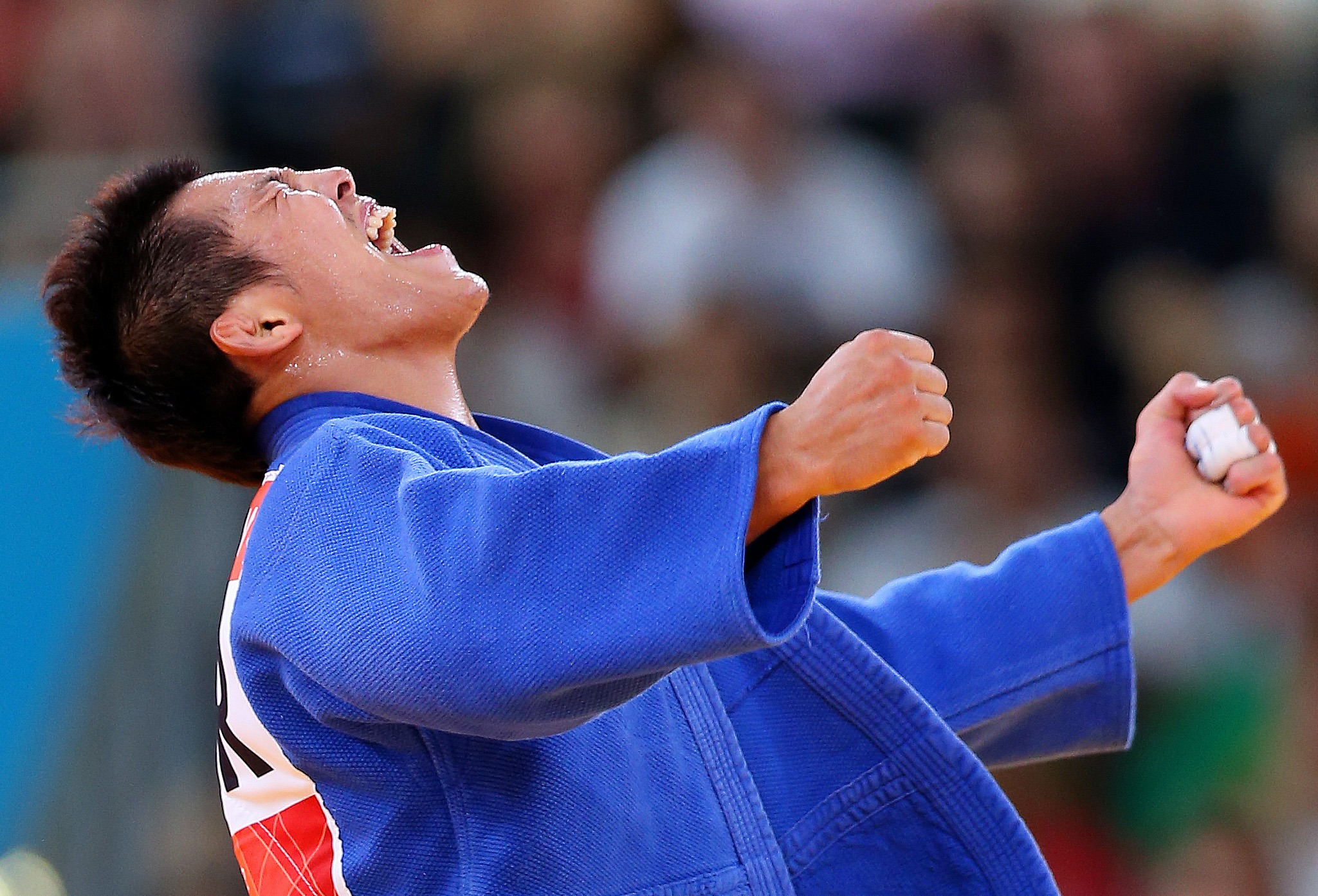 2012 London Olympic Games. Korea Judo, Kim Jae-bum won the gold medal -81kg match